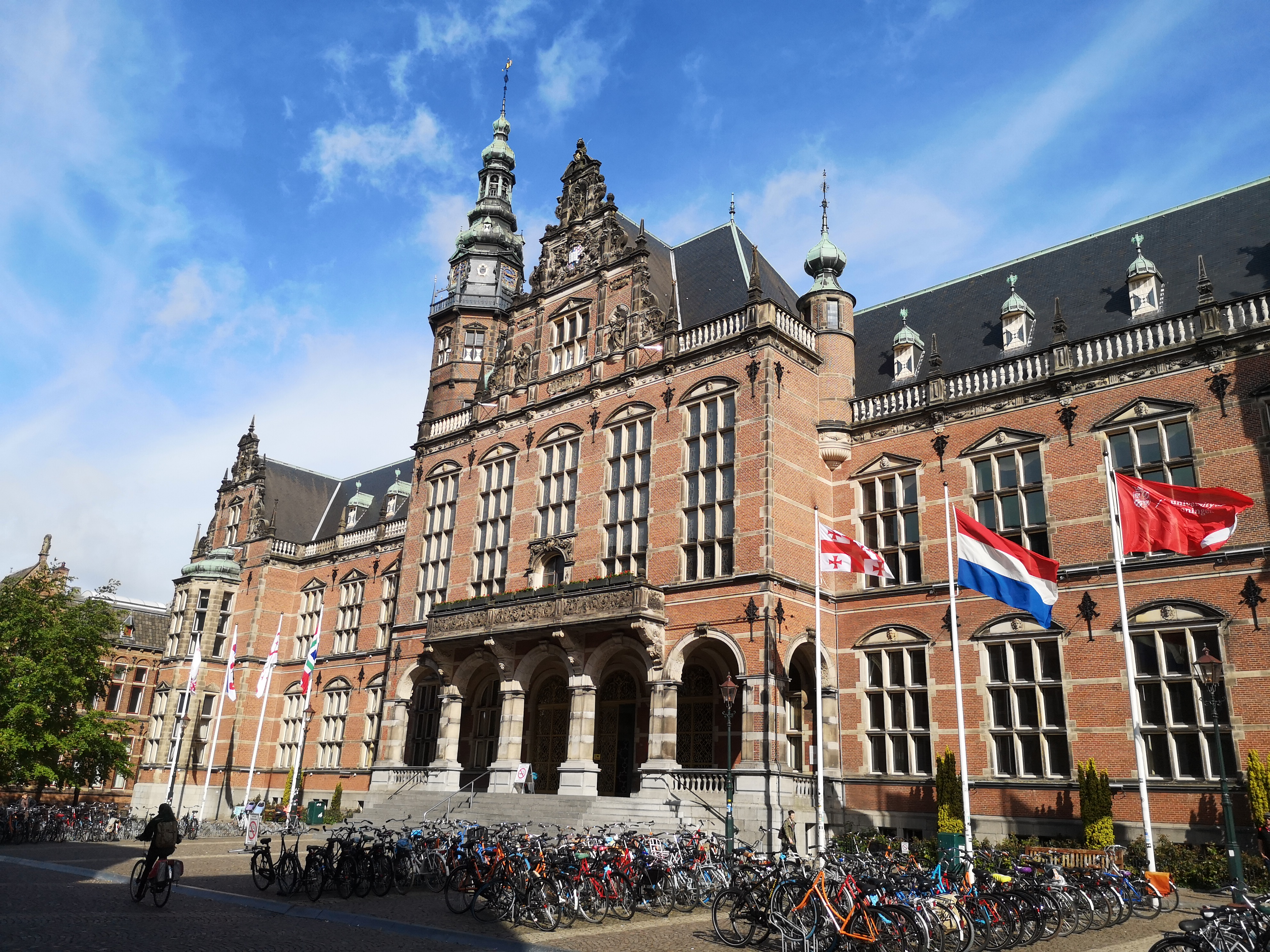 Academy Building of RUG in 2019